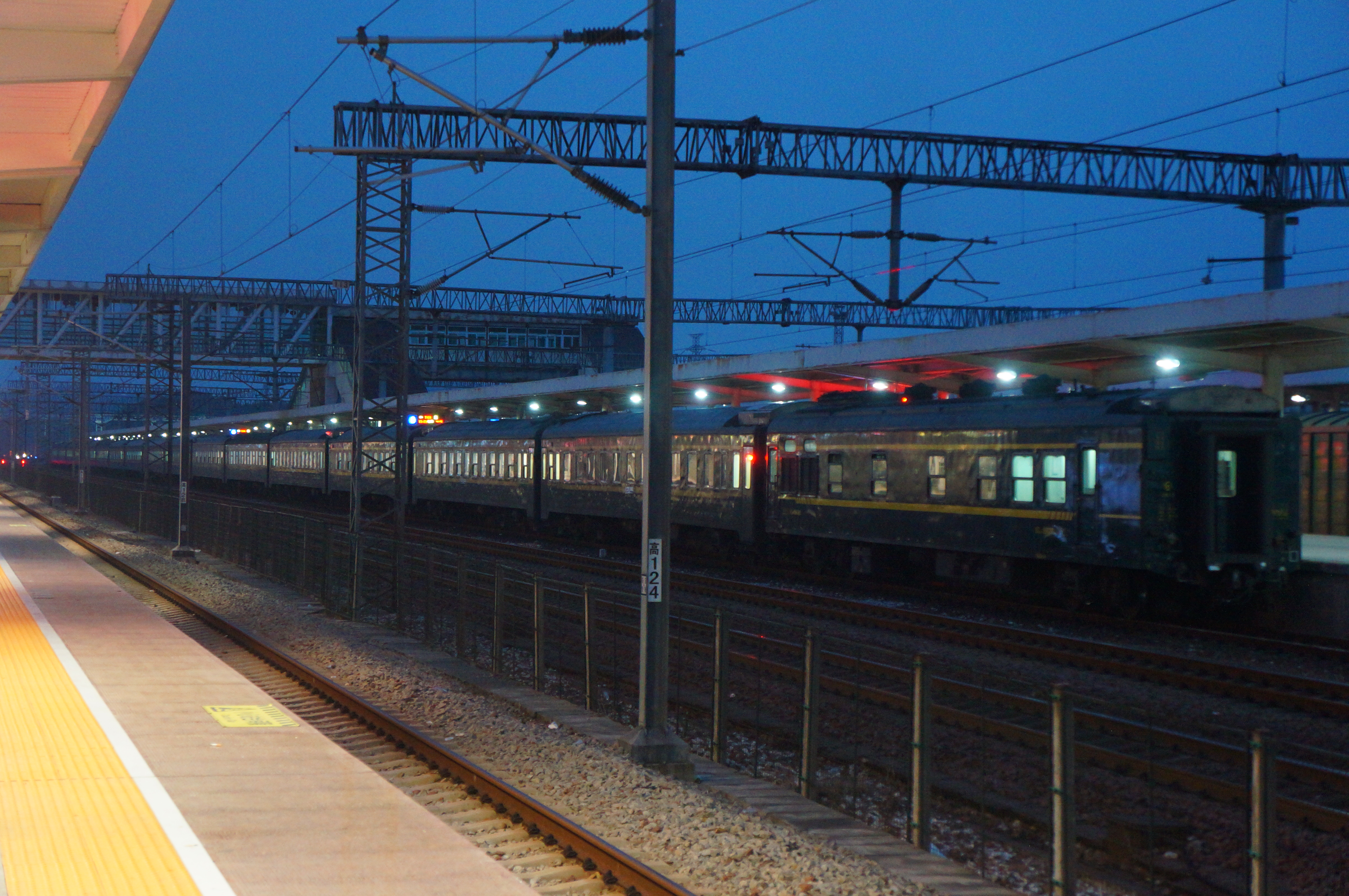 201705 Coaches of T101 at Shangrao Station. Nice to CU Again